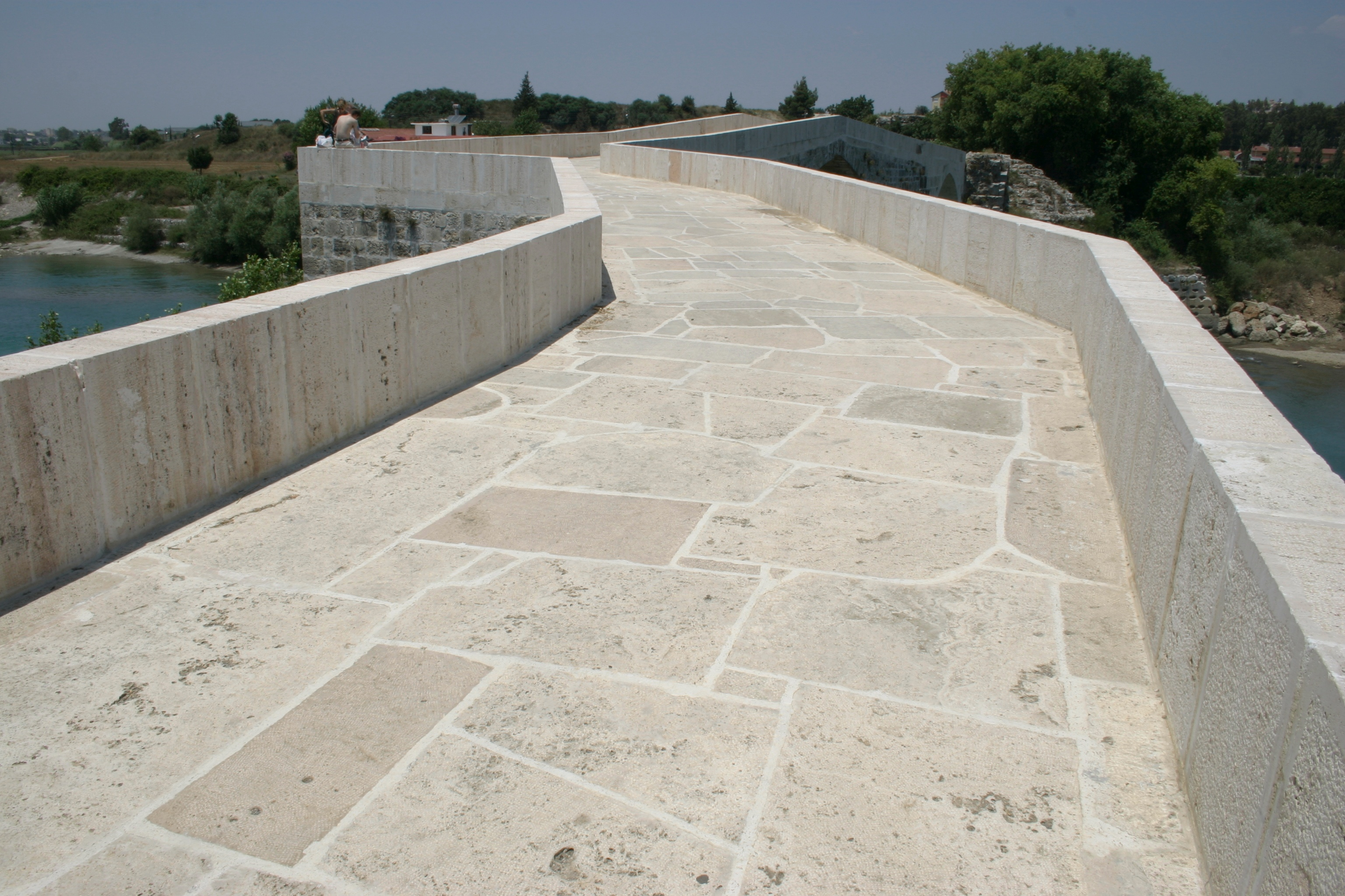 The Eurymedon Bridge (Köprüpazar Köprüsü) near Aspendos, Pamphylia, Turkey